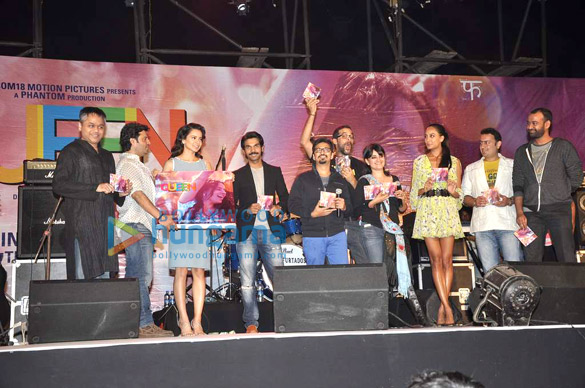 Amit Trivedi, Kangana Ranaut, Rajkummar Rao and others at the music launch of Queen (film).